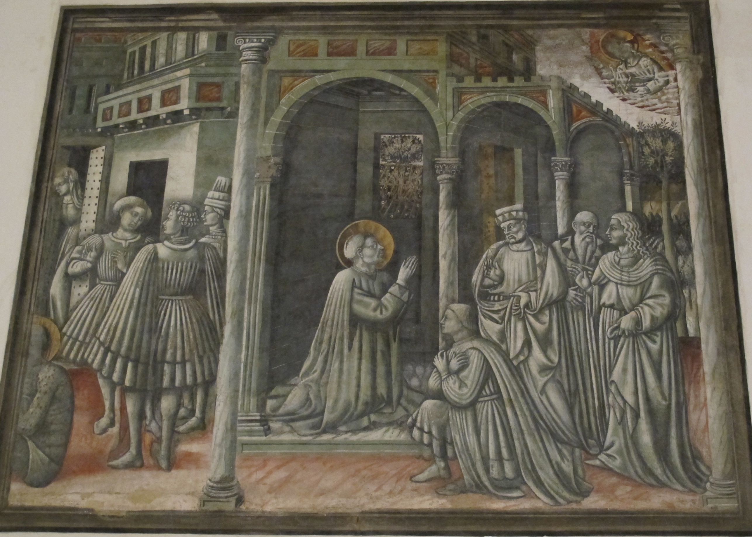 Santa Maria della Scala Hospital (Siena)